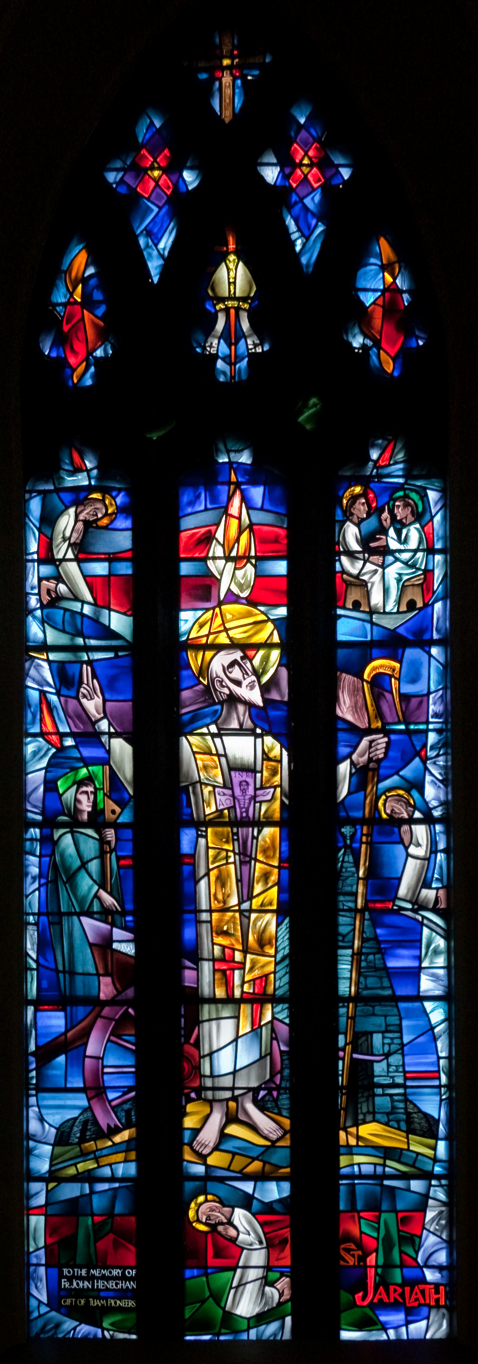 Tuam Cathedral of the Assumption, County Galway, Ireland Stained glass window depicting Saint Jarlath in the west wall of the north transept. This window was designed by Richard King (1907–1974) in 1961. (See Peter Galloway: The Cathedrals of Ireland, ISBN 0-85389-452-3, p. 213–216.)